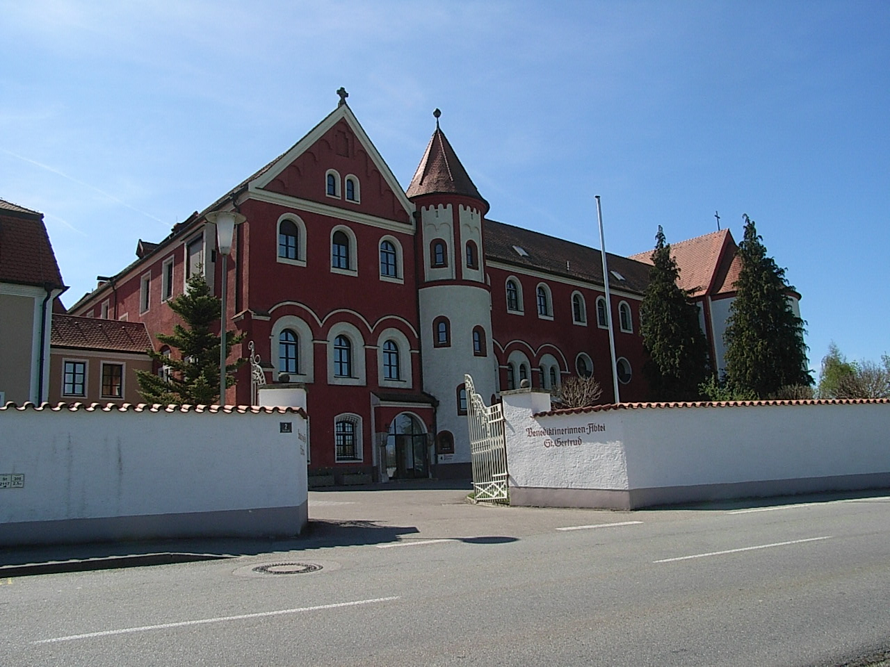 Tettenweis, St Gertrude Benedictine monastery from north-east.